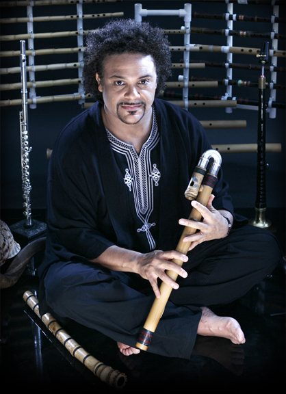 Pedro Eustache (Image:Pedro Eustache w World Flutes1.jpg)